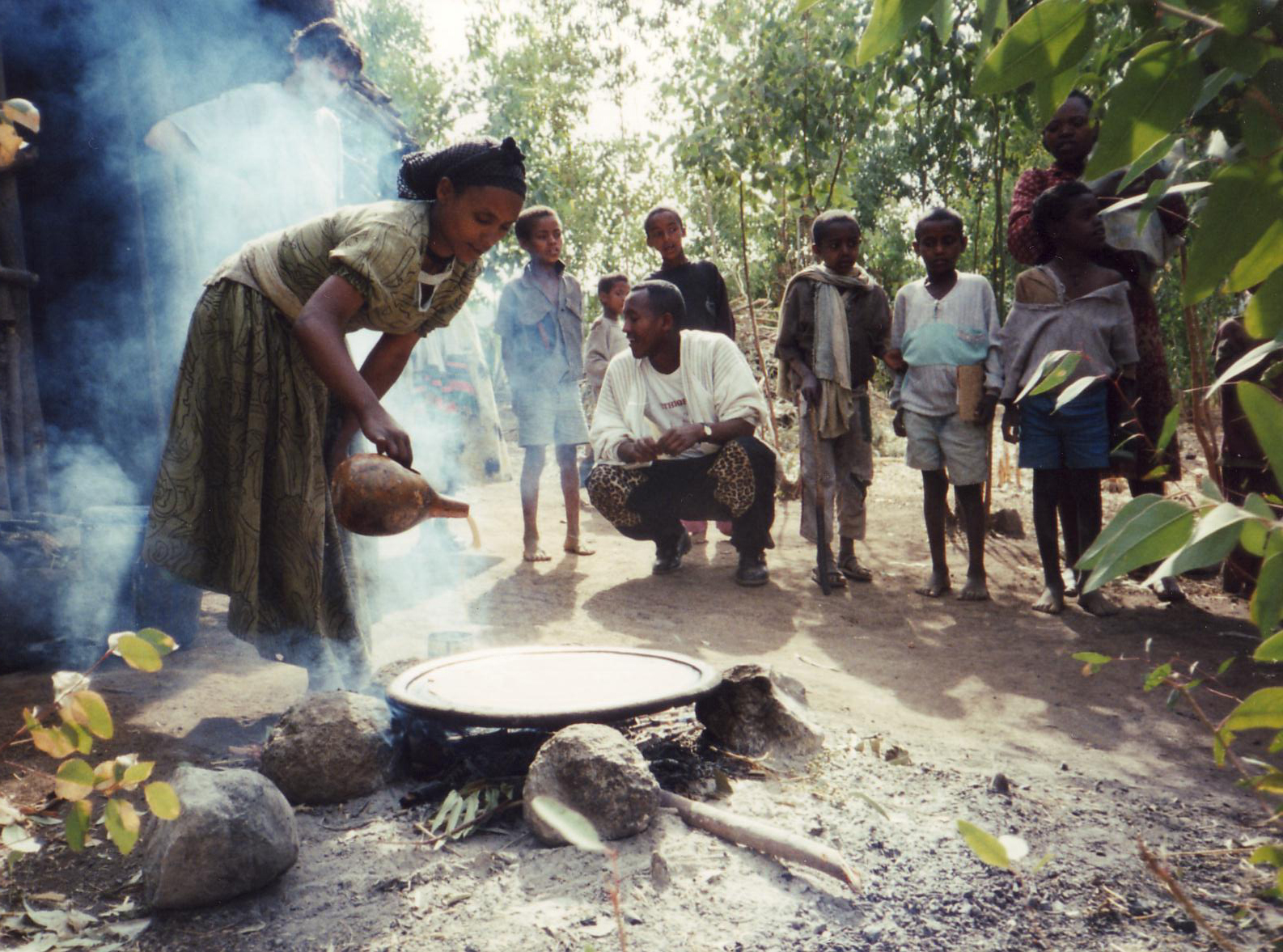 Falasha (more probably falashmura) making injera in Gonder